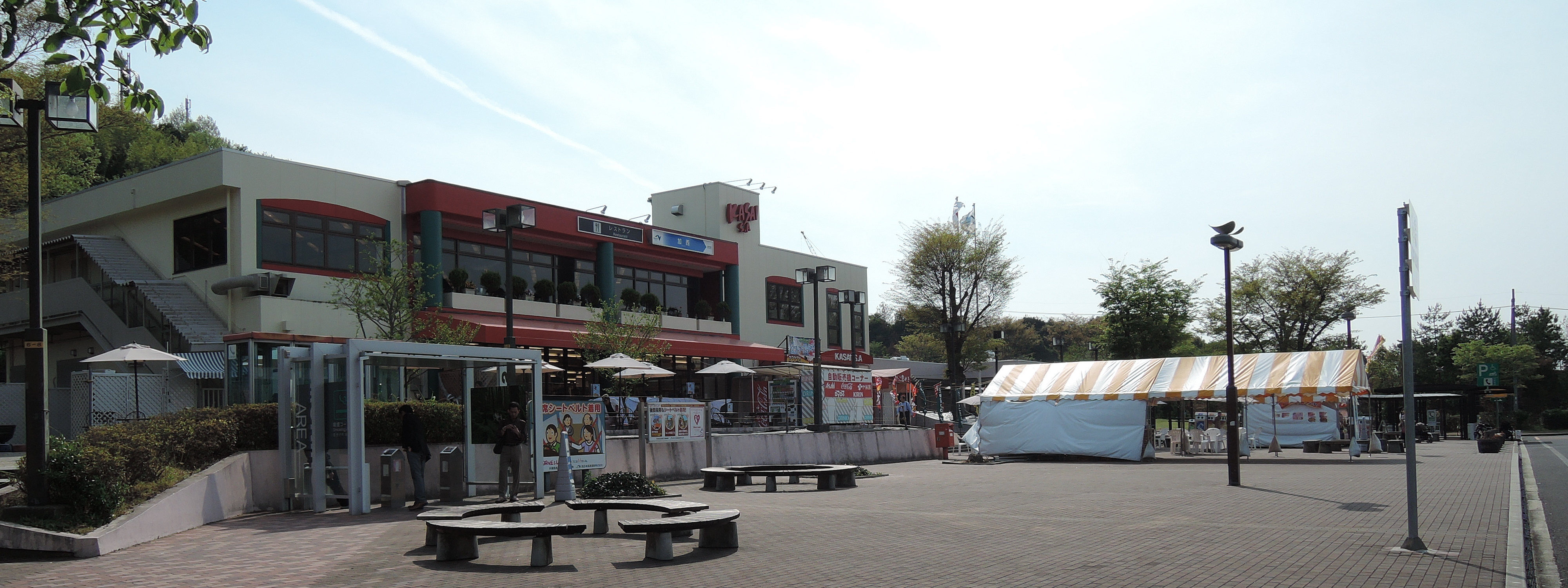 Kasai Service Area kudari ,Hyogo prefecture,Japan